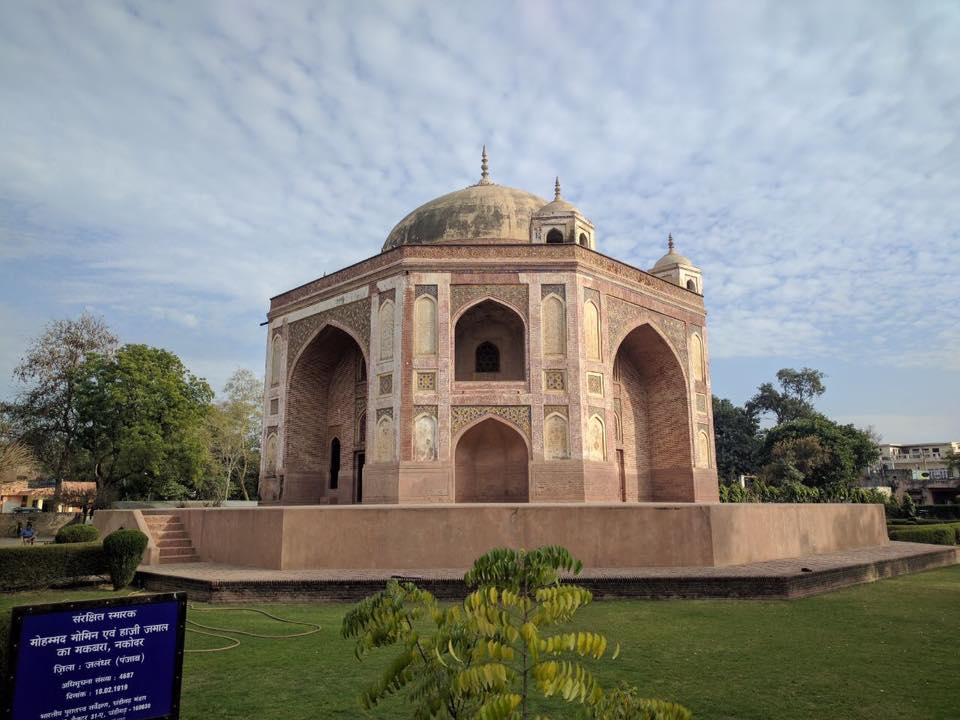 Tomb of Mohammad Momin and Haji Jamal, Nakodar,Punjab